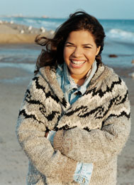 America Ferrara photographed by Jerry Avenaim Photography, Inc.